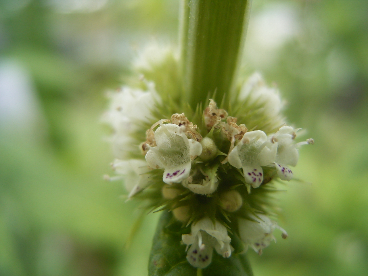 This photo shows a close-up of the flowers of the Lycopus europaeus.